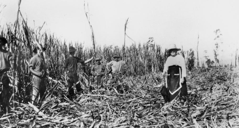 Dorothy Evans in the canefields, Norwell, Queensland, ca. 1915 Dorothy to the right of the photograph with a cane cutting team at Sempf's farm in Norwell, southern Queensland. (Description supplied with photograph.).